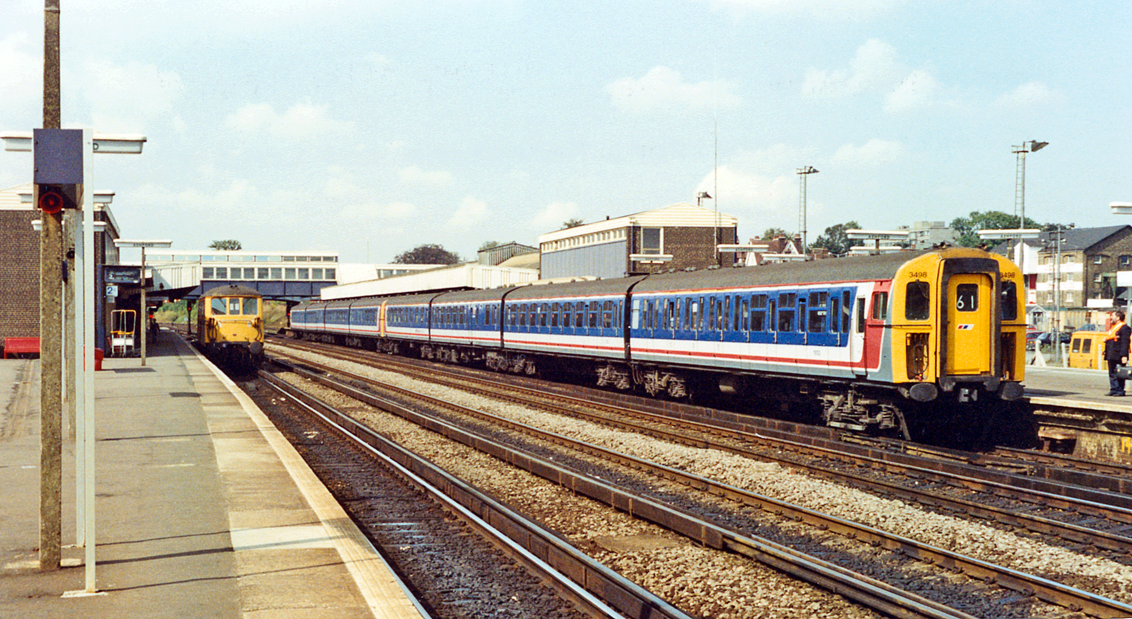 Ashford Station, 1990. View westward, towards Tonbridge and Maidstone: ex-SE&CR London Charing Cross/Redhill - Tonbridge - Folkestone - Dover etc., also London Victoria Swanley - Maidstone East - Ashford. At the main Down platform is a train of Class 423 EMUs on a train for the Canterbury line, while on the Up side is a Class 73 Electro-Diesel.